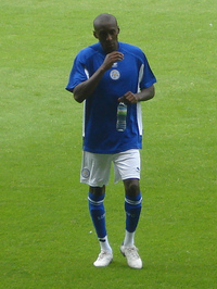 Lloyd Dyer - Leicester City vs. Oxford United (Image cropped from original on Flickr)